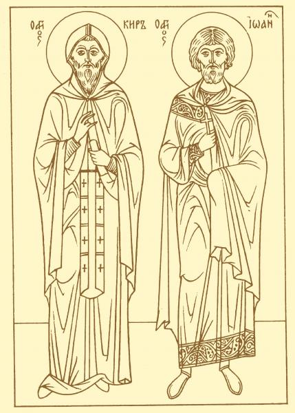 St. Cyrus and John (ortodox icon)